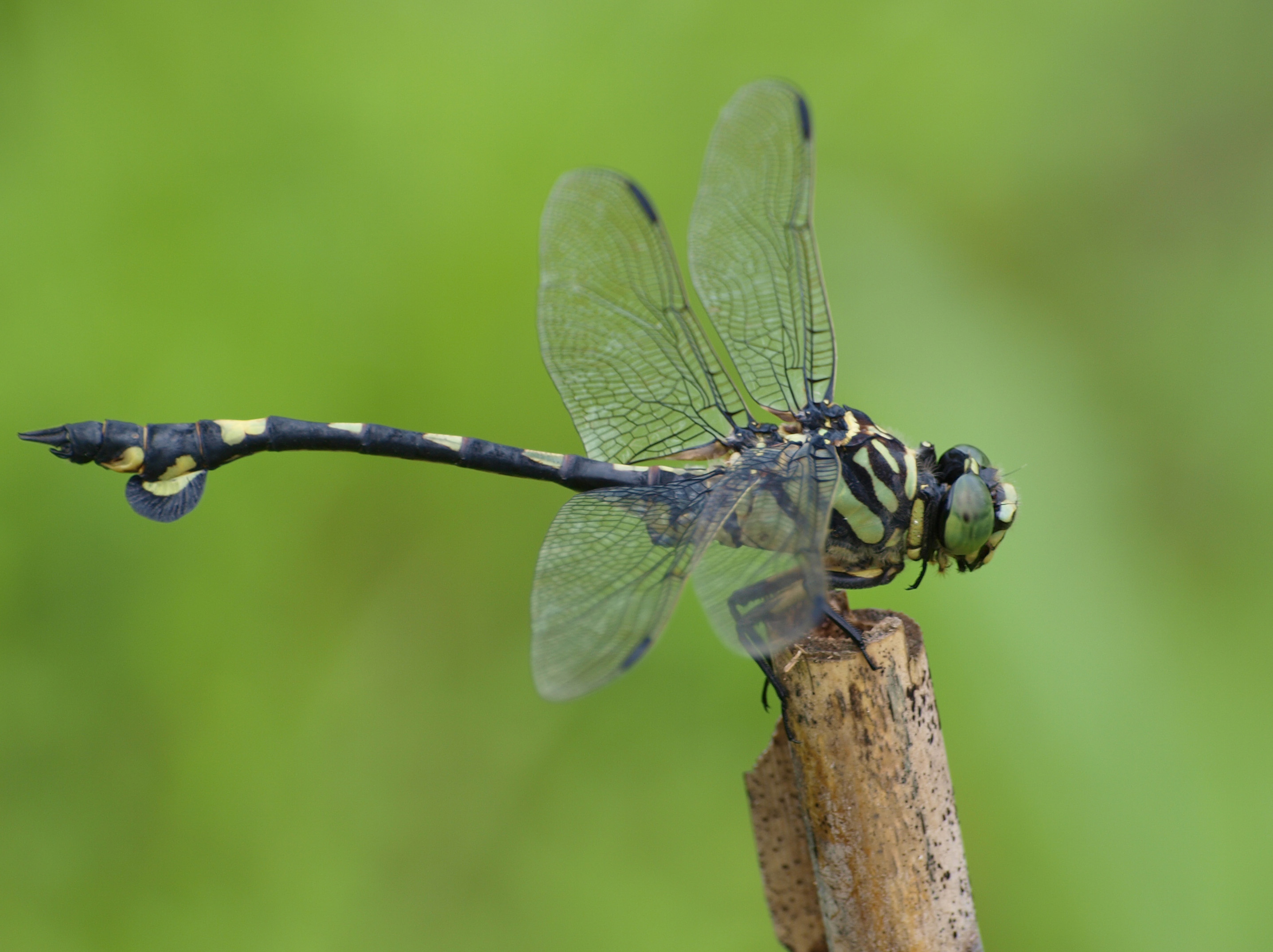 Sinictinogomphus clavatus at Shimanto City,Kochi Pref,Japan